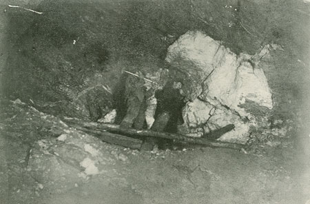 Richardson Gold Mine, NS / "Face East Tunnel, width 20 Feet." Published in B.T.A. Bell, The Canadian Mining, Iron and Steel Manual (1896), p. 102. Mine located at Country Harbour, Guysborough County.